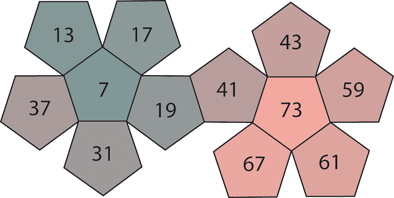 nontransitive prime-numbers-dodecahedron PD 2